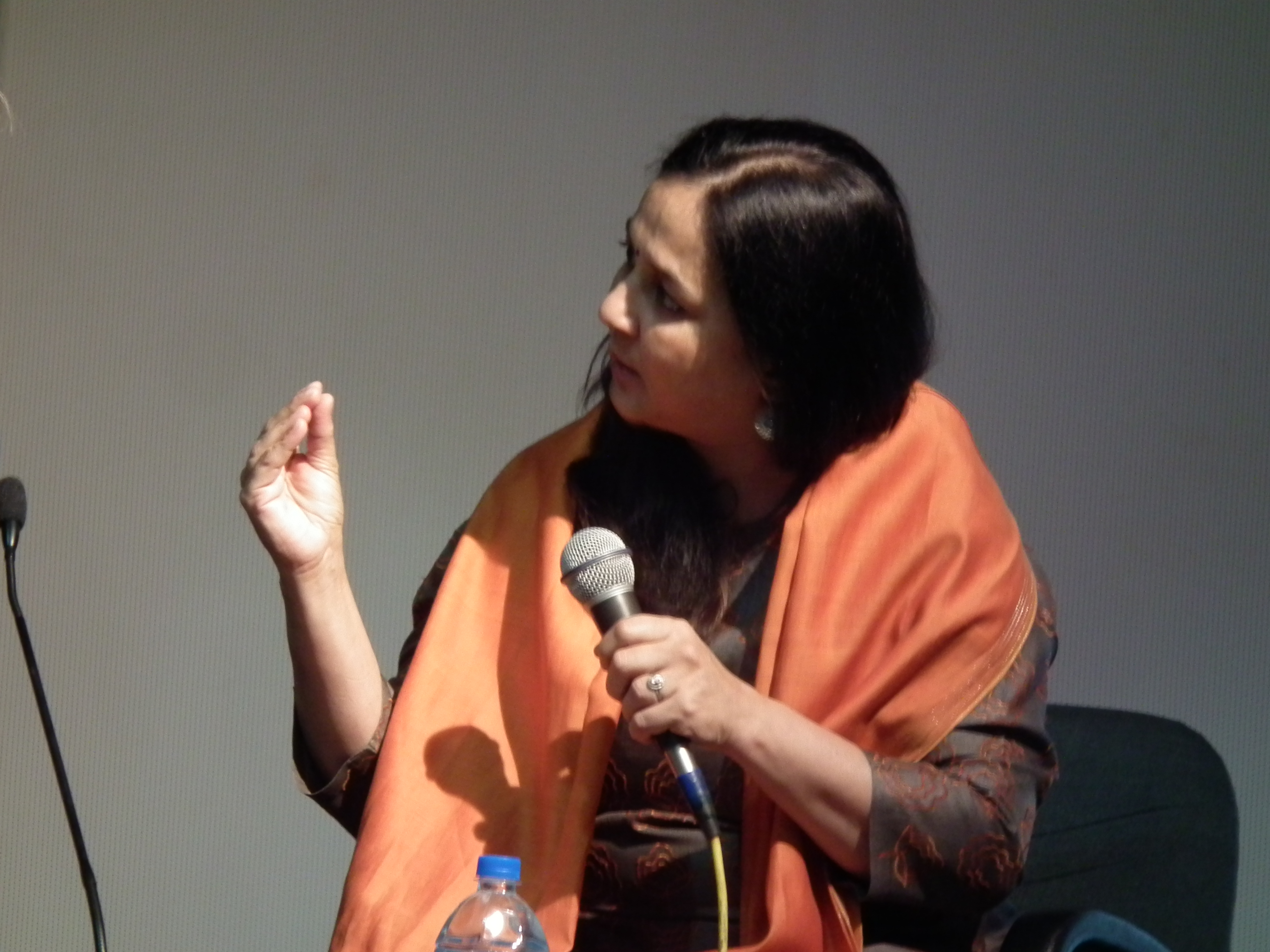 Rohini Nilekani at Azim Premji Public Lecture Series on 30th Jan 2013